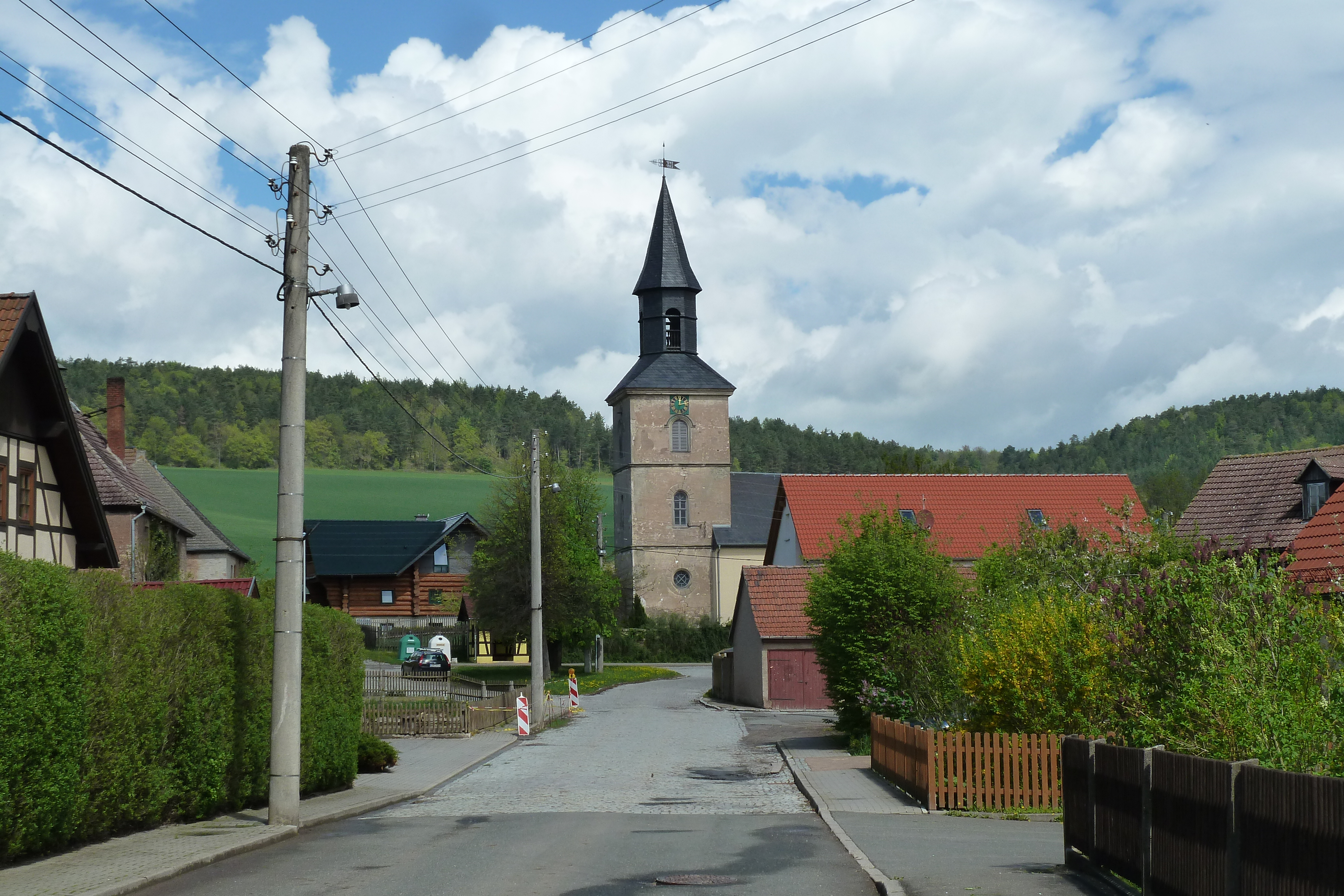 Rabis, municipality of Schlöben, Saale-Holzland-Kreis, Thuringia, Germany